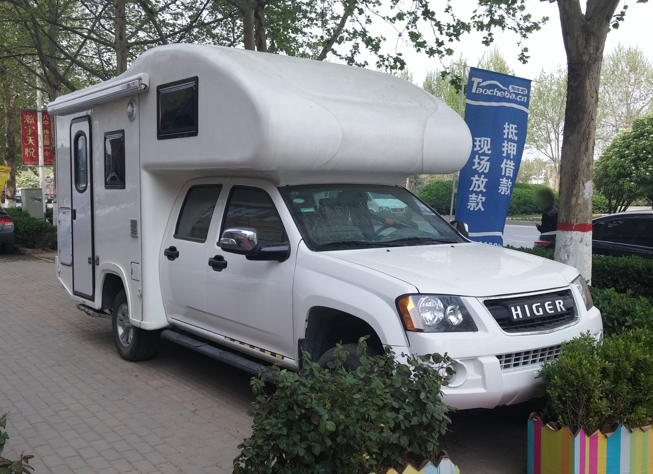 Higer Yujun photographed in Zhengzhou, Henan province, China.